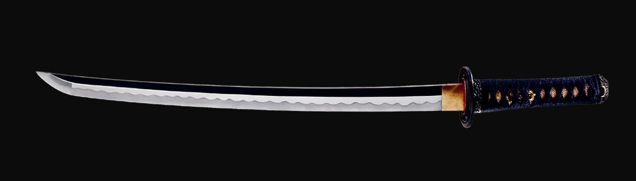 blade of a Wakizashi sword